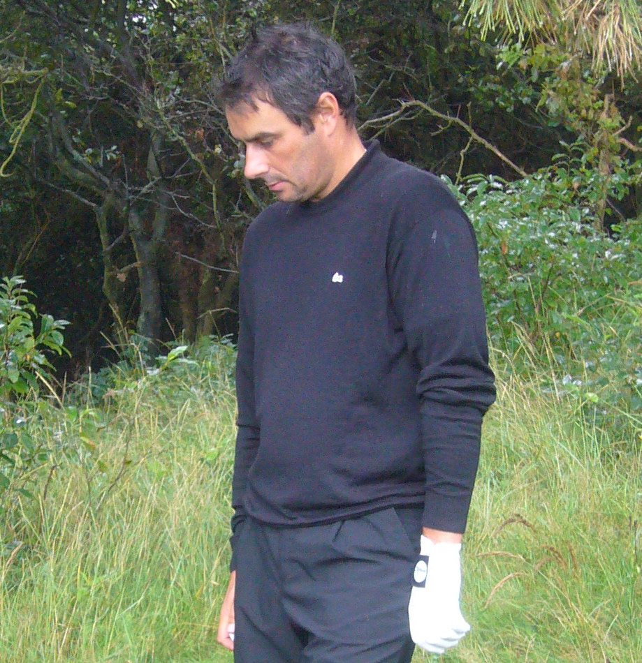 Jean van de Velde, French golfprofessional at KLM Open at Zandvoort